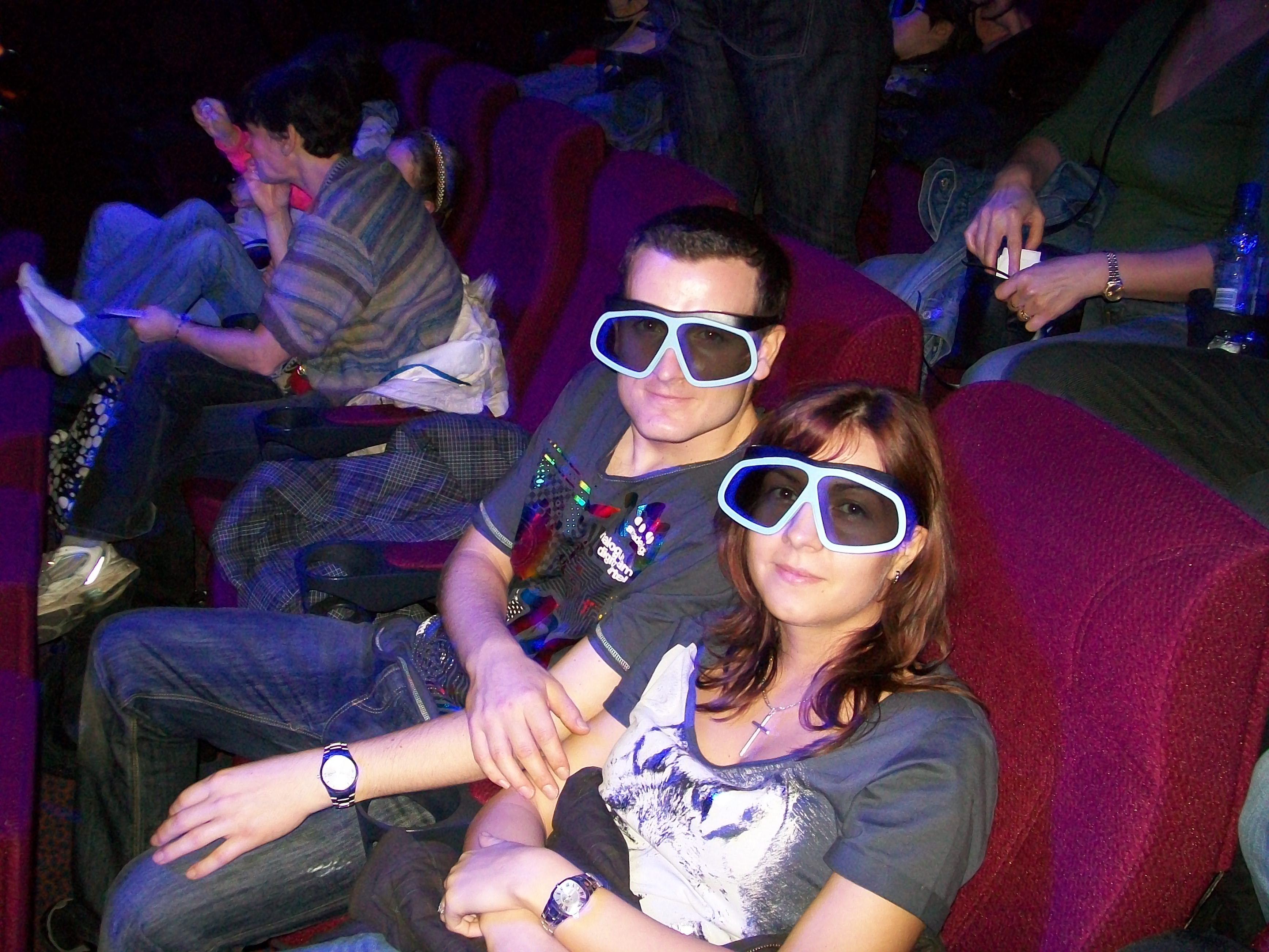 Comfort in Cinema IMAX in London